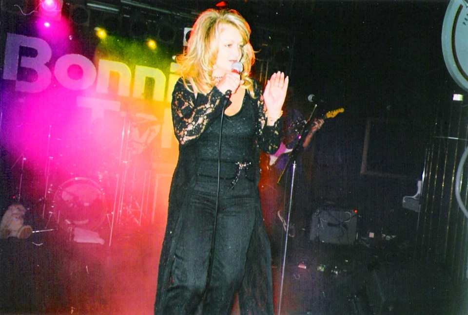 Bonnie Tyler performing on stage in Moscow, Russia, 9 May 1999.